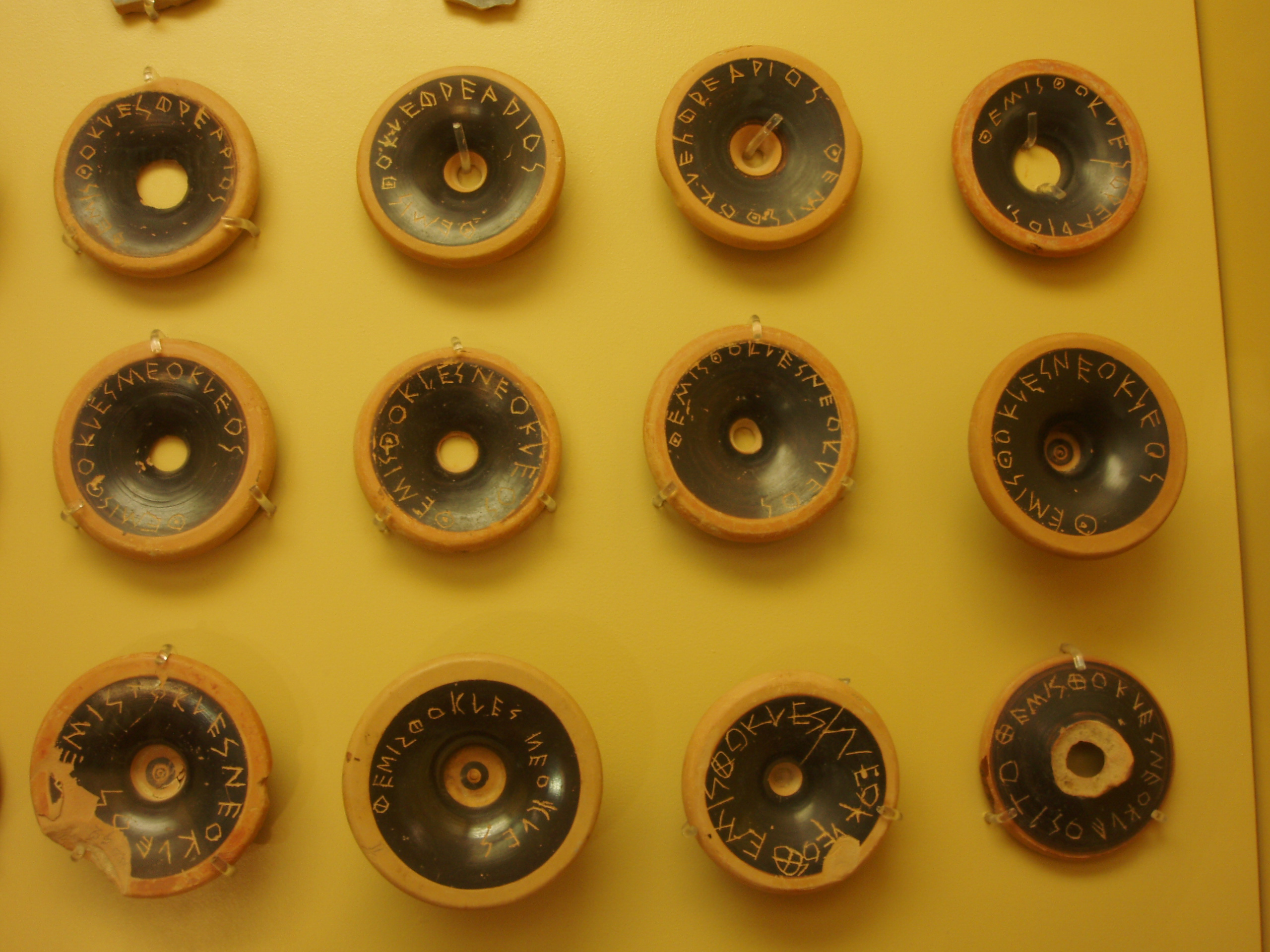 These ostraka from 482 BC were recovered from a well near the Acropolis. The ostraca in the upper row read "THEMISTHOKLES PHREARIOS" (Themistocles from Phreari), while the others read "THEMISTHOKLES NEOKLEOS" (Themistocles son of Neocles). The Athenians had a particular voting technique to remove a citizen from the community: Every voting citizen would scratch the name of the person to be exiled into a piece of pottery and hand it in to be counted. For some votes thousands of named pottery pieces have been found.If ostracized, the person was exiled for ten years, and after that time could return and have their property restored. After his ostracism, Themistocles defected to Persia and was made governor of Magnesia.